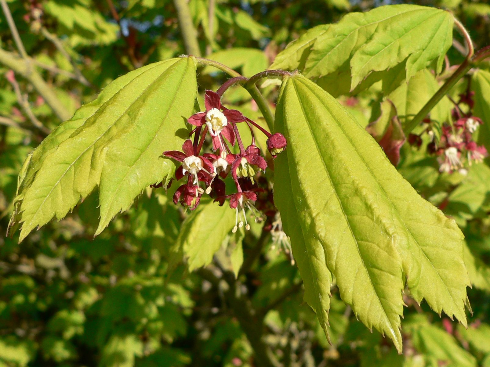 Vine Maple